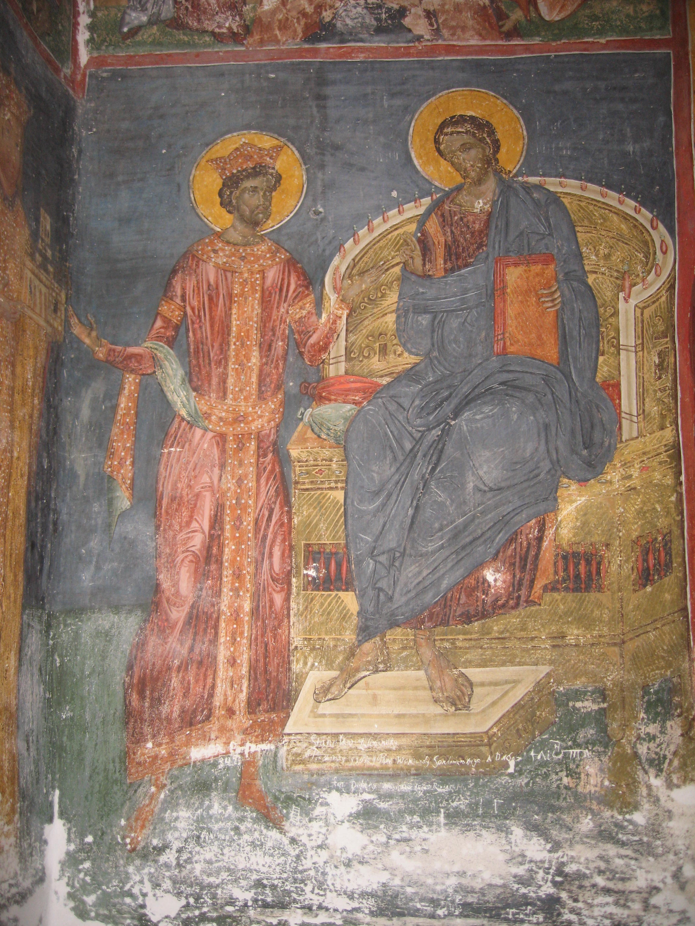 The Church of Pătrăuţi, Romania, UNESCO monument